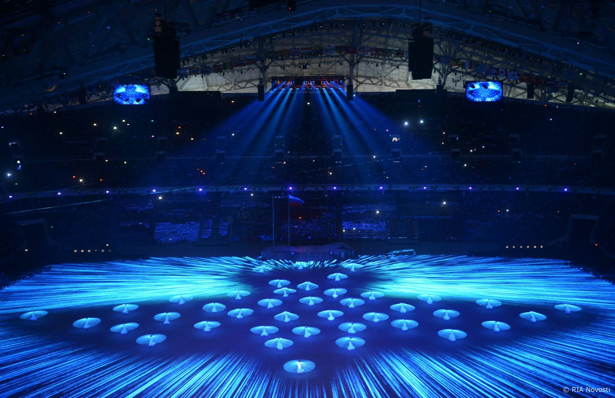 At the Opening Ceremony for the XXII Olympic Winter Games.